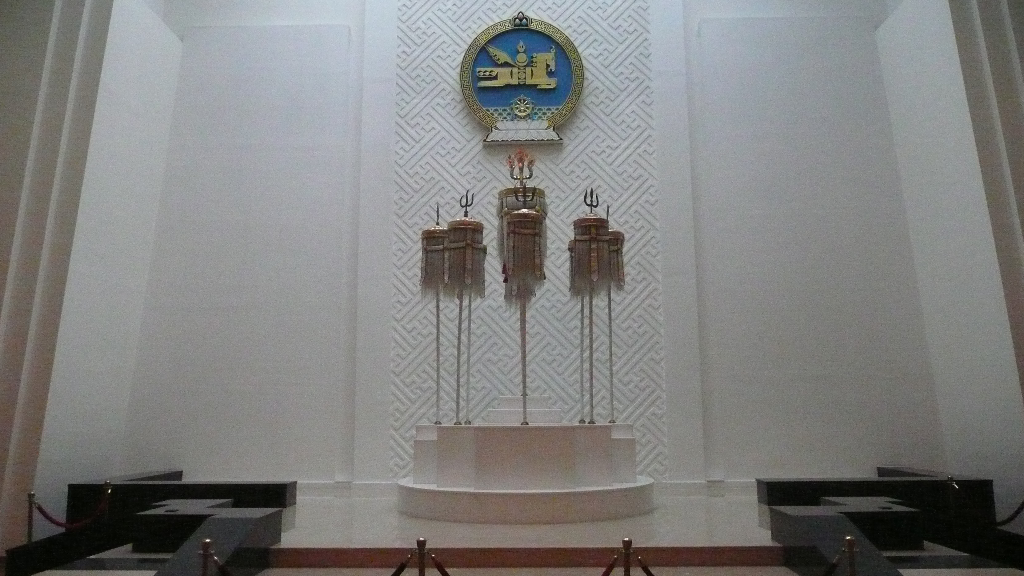 Inside the Parliament of Mongolia - festival hall